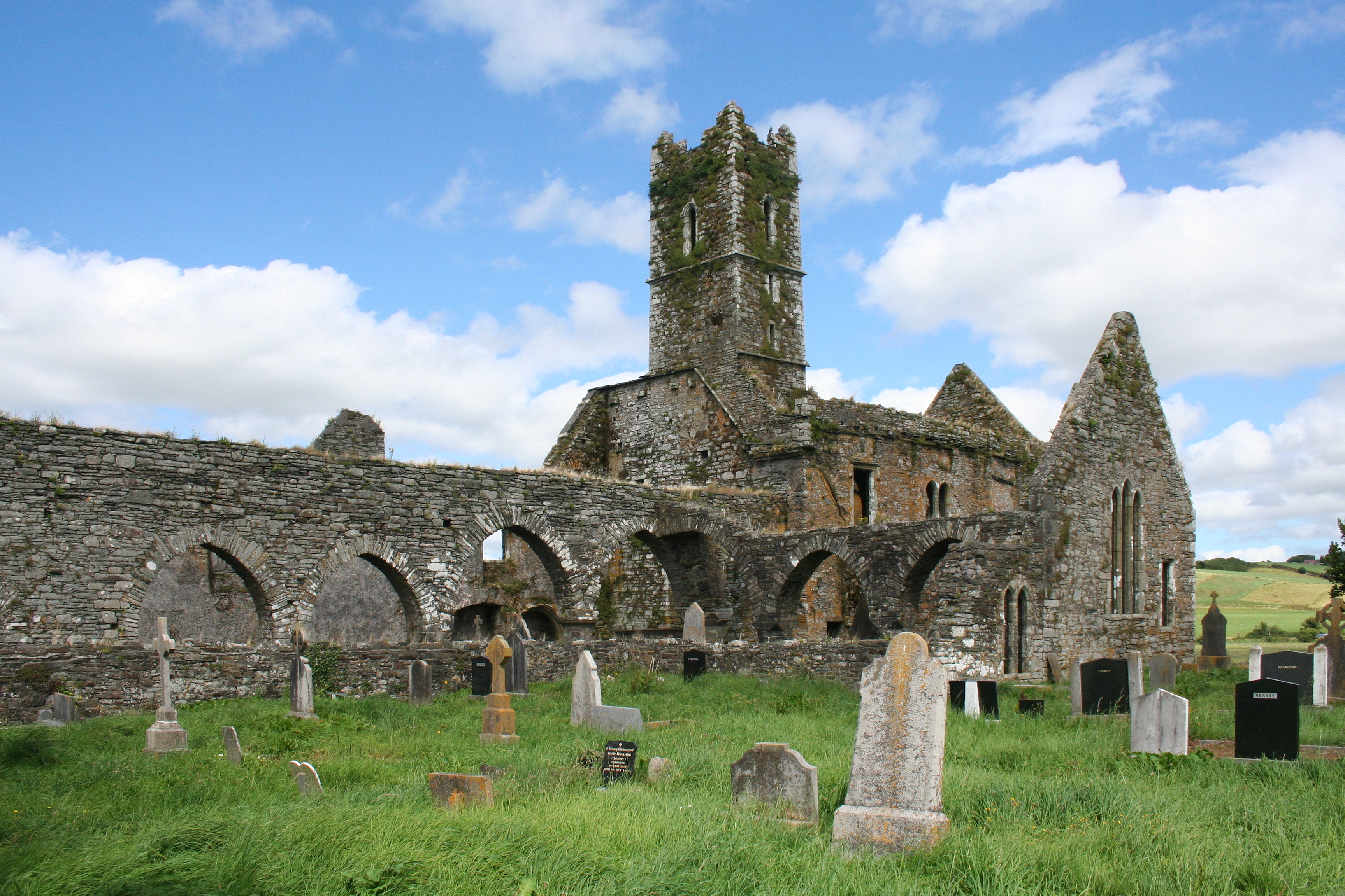 Ruins of Timoleague Friary